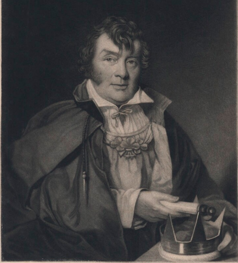 Roger OConnor via the NPG